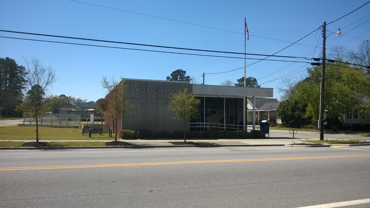 United States Post Office in Bowman, South Carolina